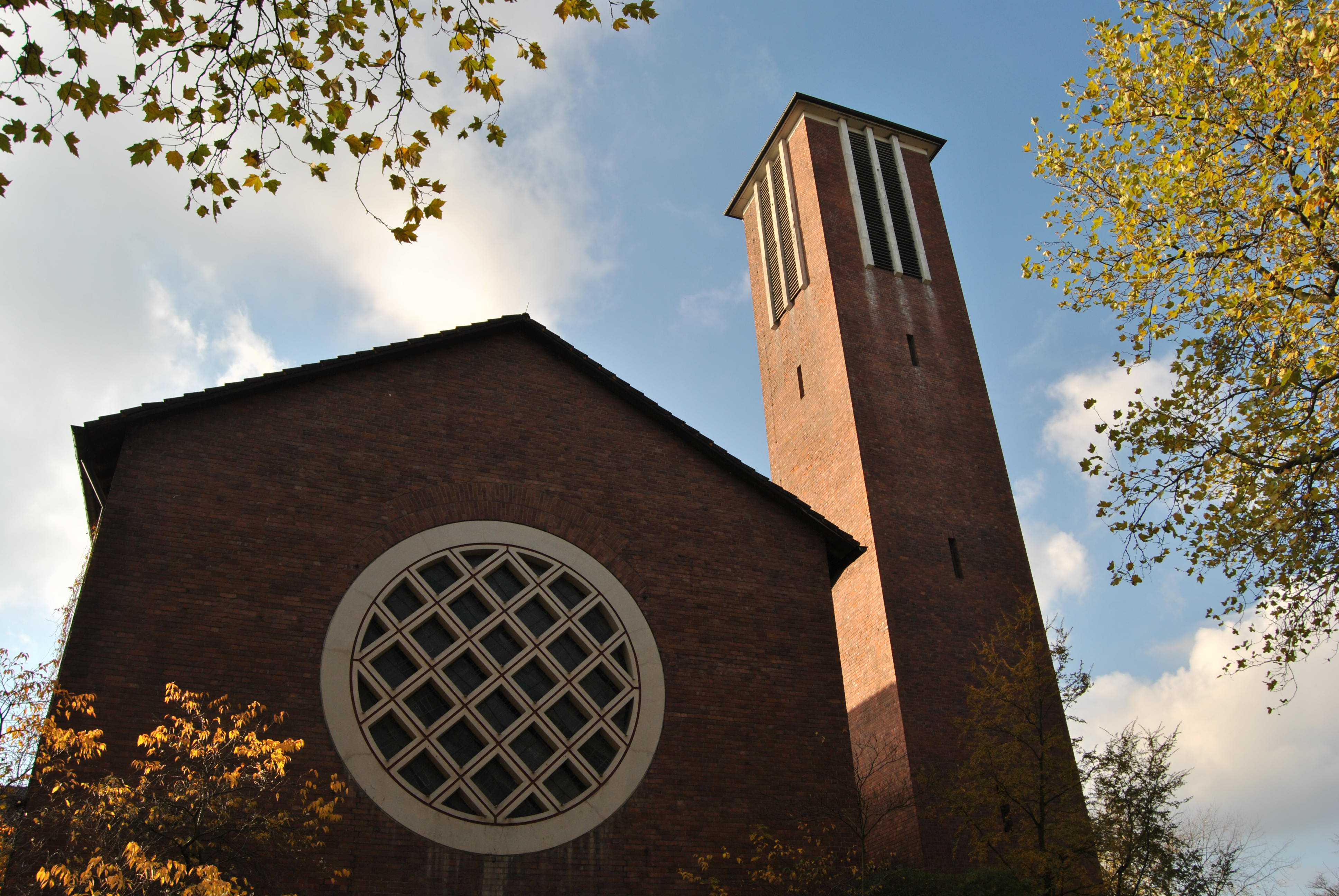 Duisburg (North Rhine-Westphalia, Germany) – borough Hamborn, district Neumühl – Catholic Saint Martin Church (meanwhile demolished) This image shows a heritage building in Germany, located in the North Rhine-Westphalian city Duisburg (no. 476). This photograph was taken with a Nikon D3000.